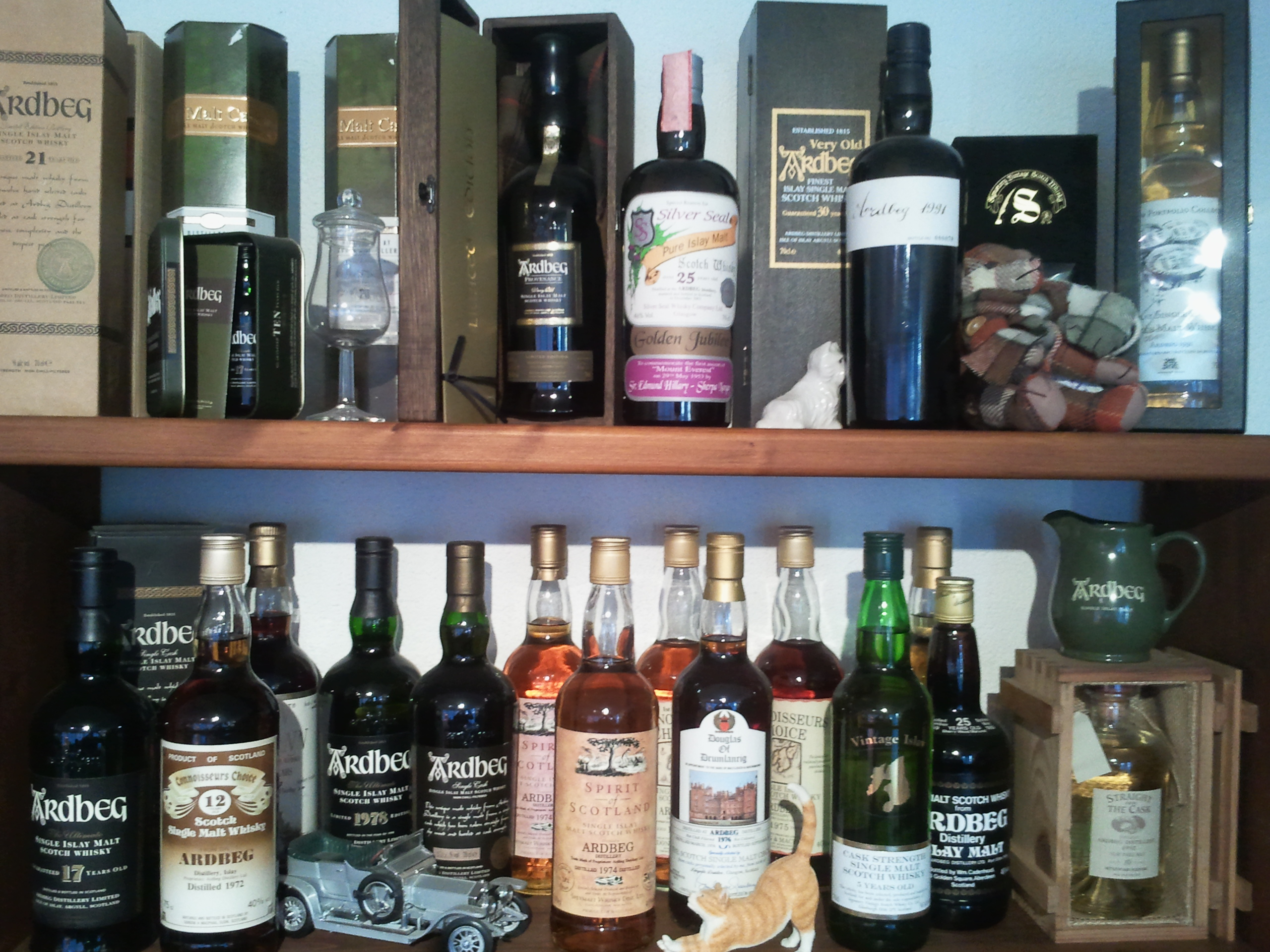 Collection of Whisky bottles containing different blends of Ardbeg Whisky